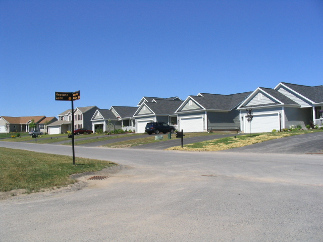 photo of new patio homes in Camillus, NY, taken by me on June 29, 2007